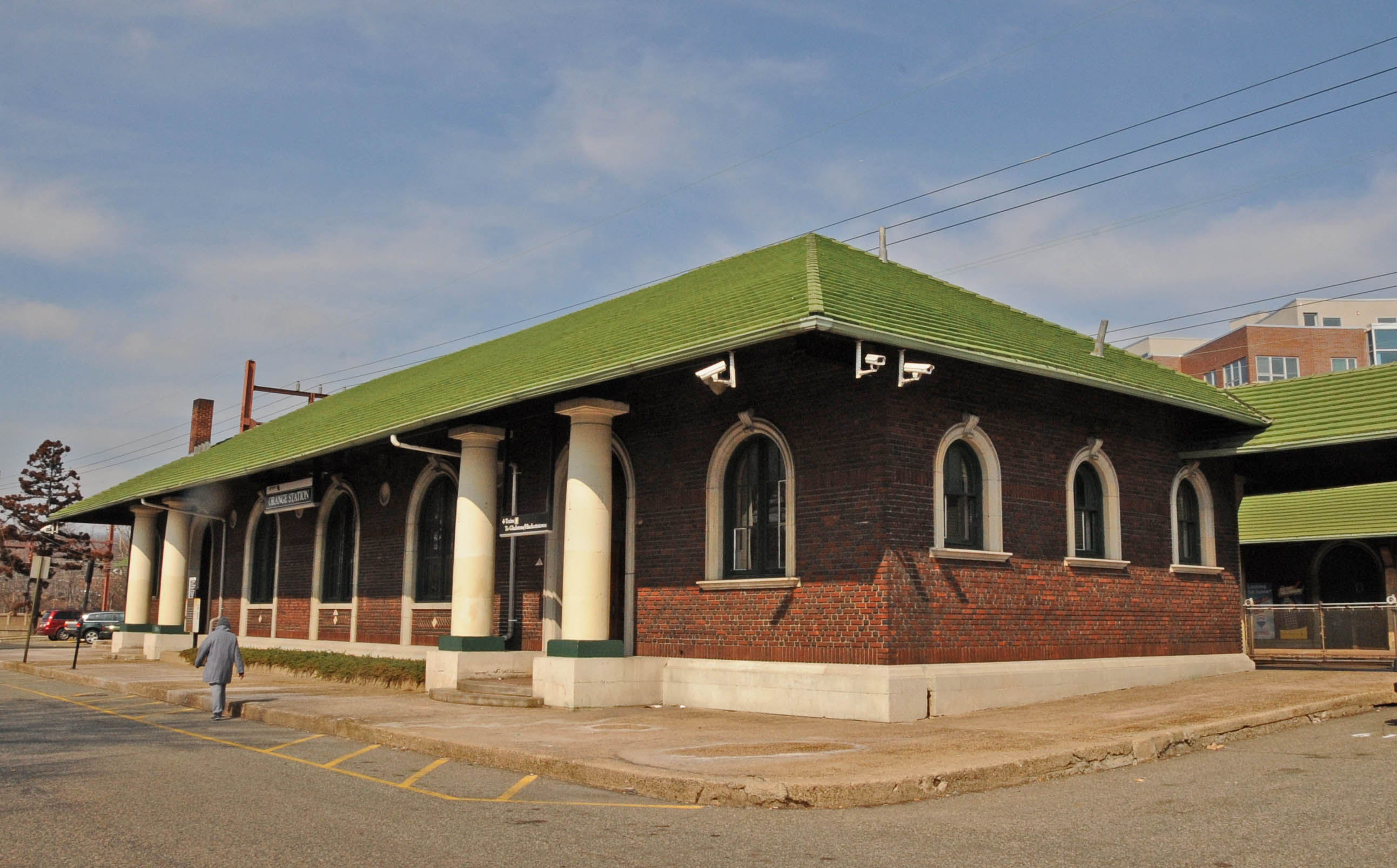 THE BRICK STATION AND NEARBY FREIGHT TERMINAL WAS BUILT IN 1918.